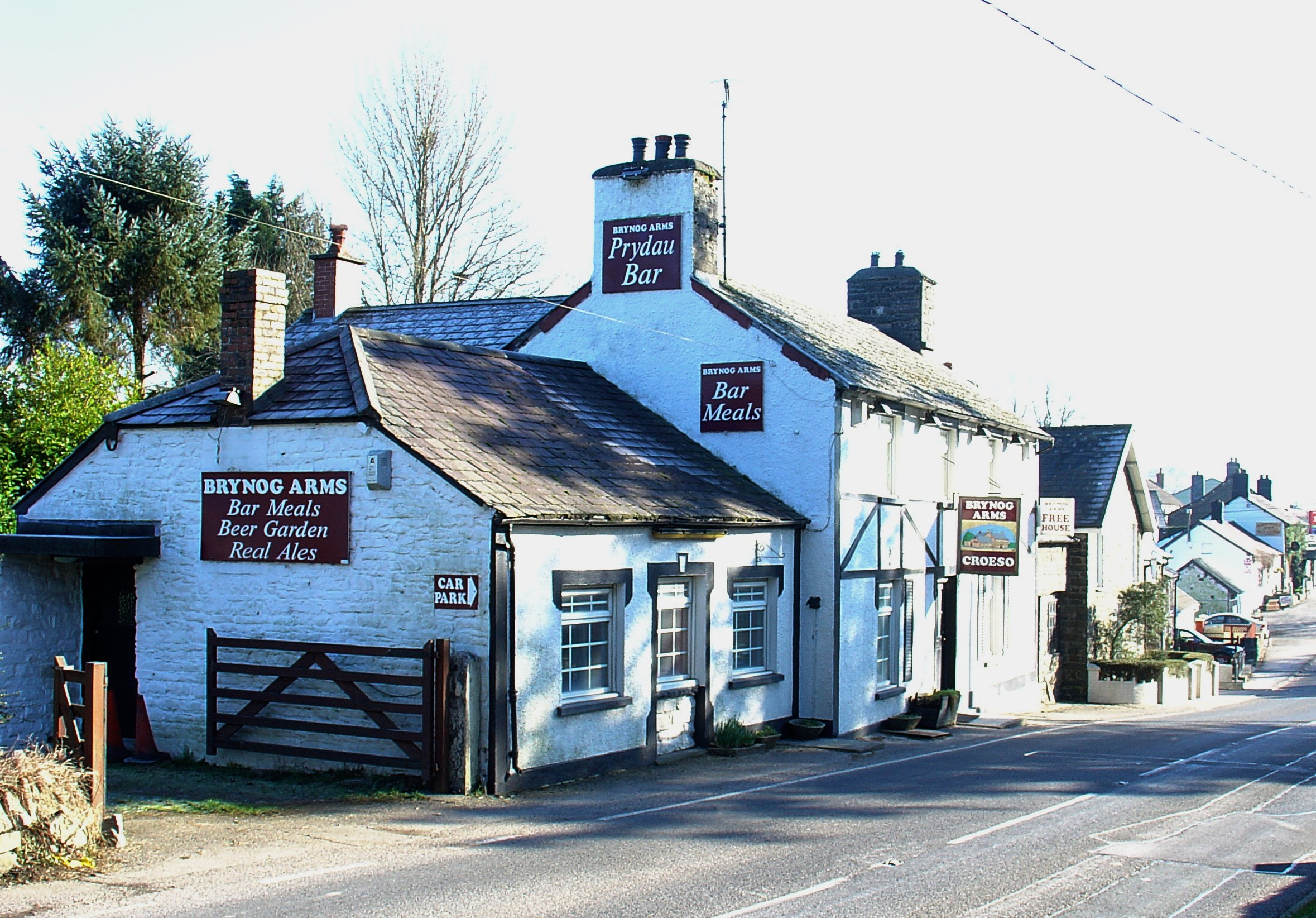 The village of Ystrad Aeron, Ceredigion, Wales. Pub in foreground is the Brynog Arms